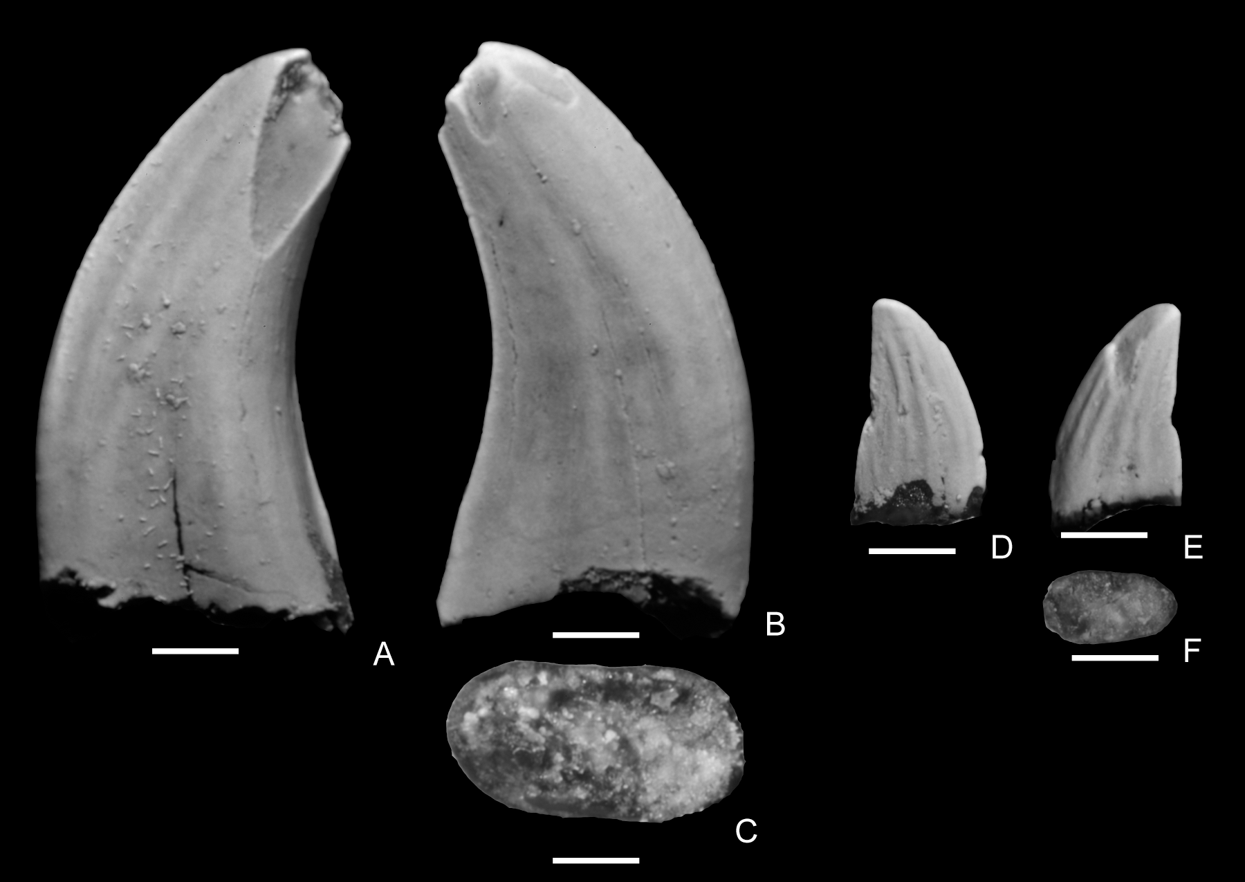 A–C, tooth of “Paronychodon” (NMMNH P-30233) showing lingual (A), labial (B), and basal (C) views; D–F, tooth of “Paronychodon” (NMMNH P-30218), showing lingual (D), labial (E), and basal (F) views